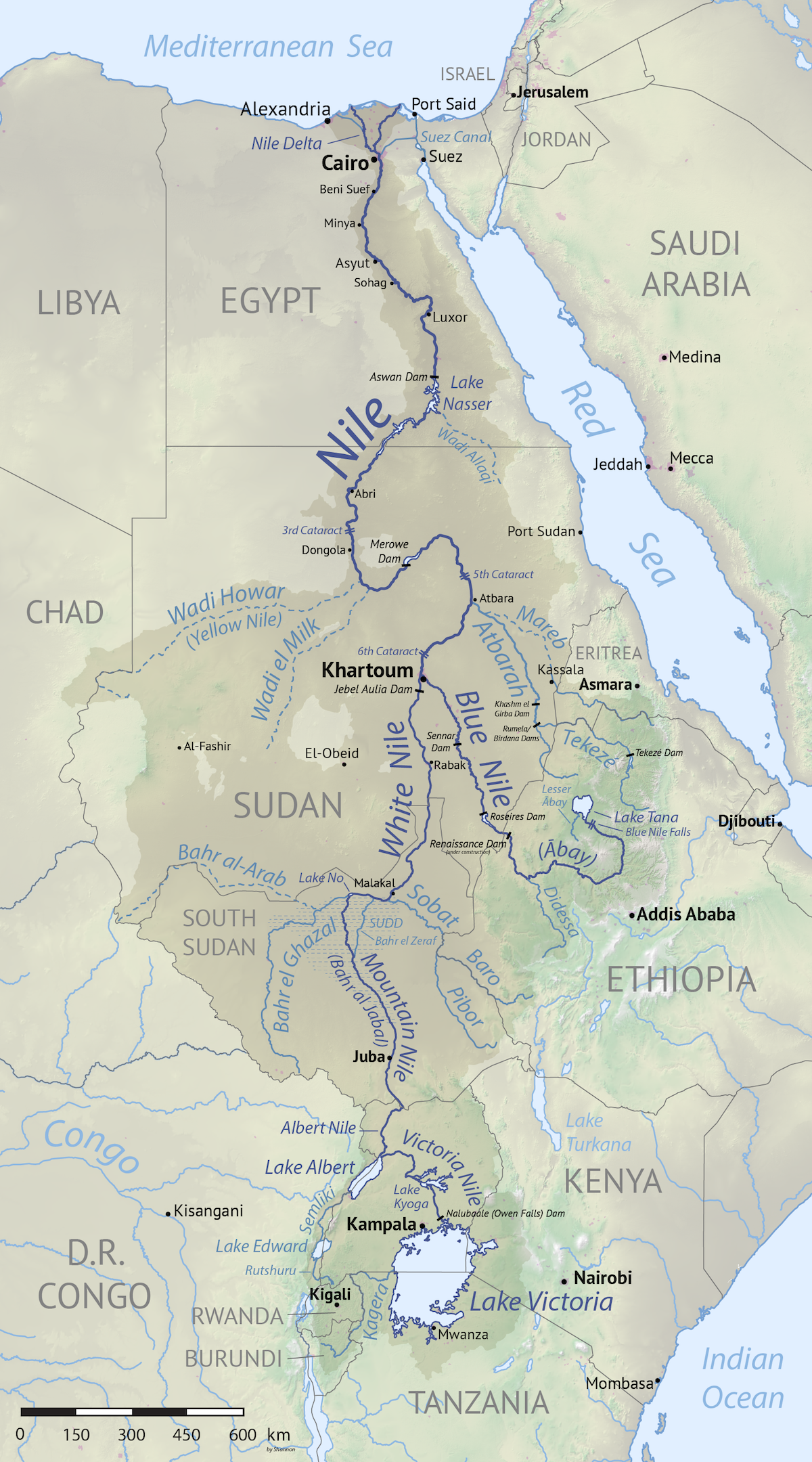 Map of the Nile basin showing major lakes, tributaries, cataracts, wetlands, cities, and dams. Made using Natural Earth and U.S. Geological Survey data.